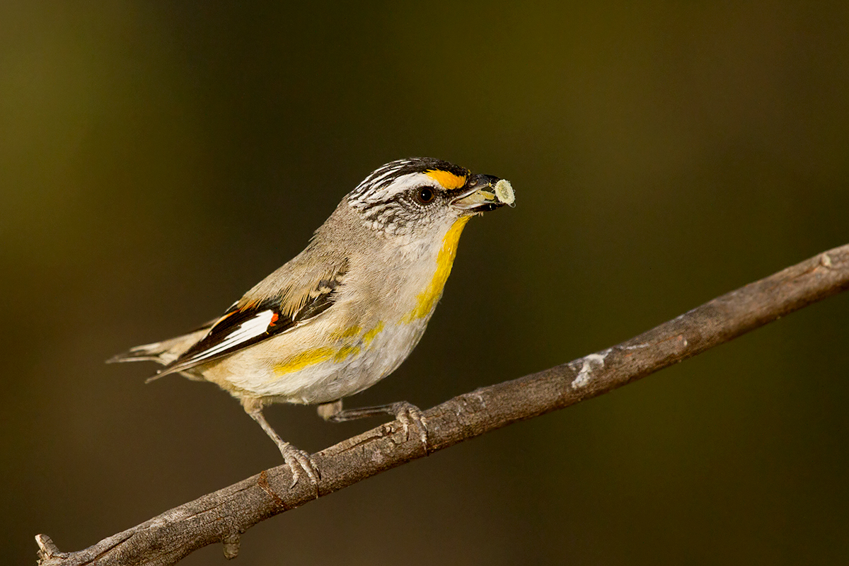 Strangways Vic. With a meal of Llerp for the young in one of our nest boxes.